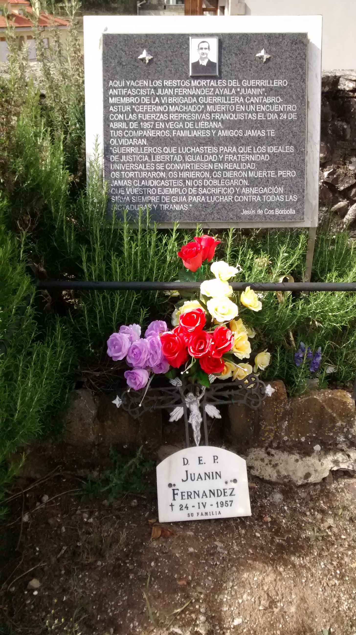 Tomb of the guerrilla Juan Fernández Ayala, alias "Juanín", in the cemetery of Potes (Cantabria, Spain).